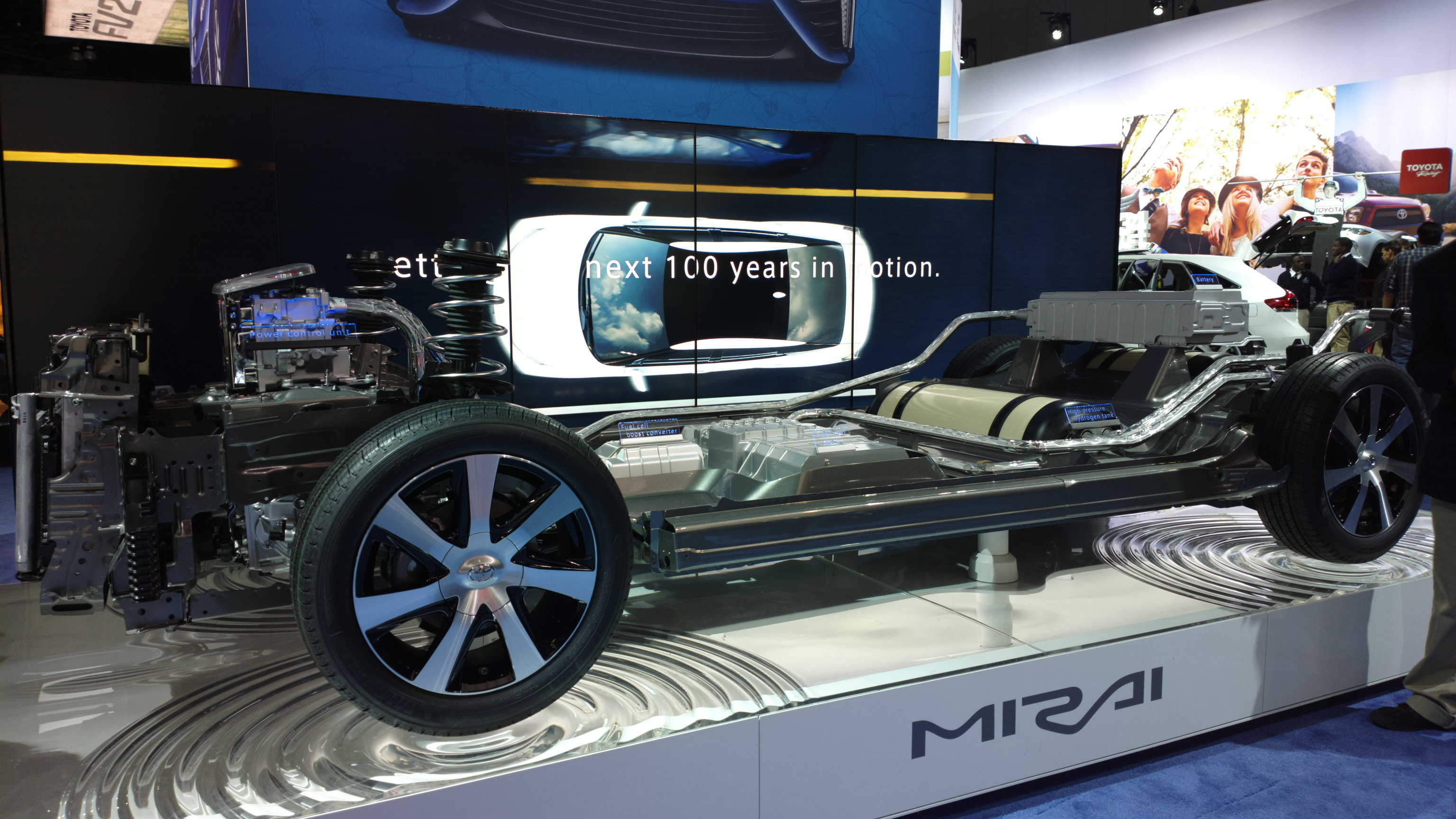 Toyota Mirai cutaway exhibited LA Show 2014